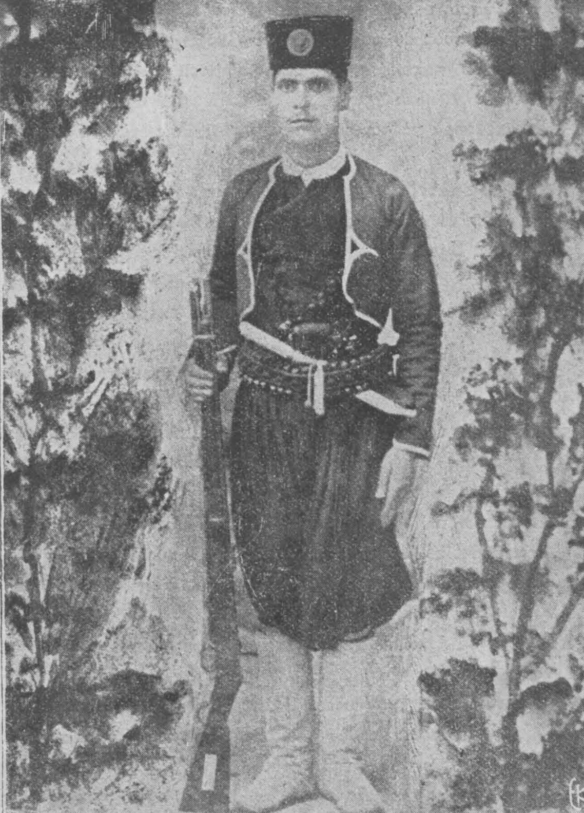 Greek andart captain Georgios Seimenis